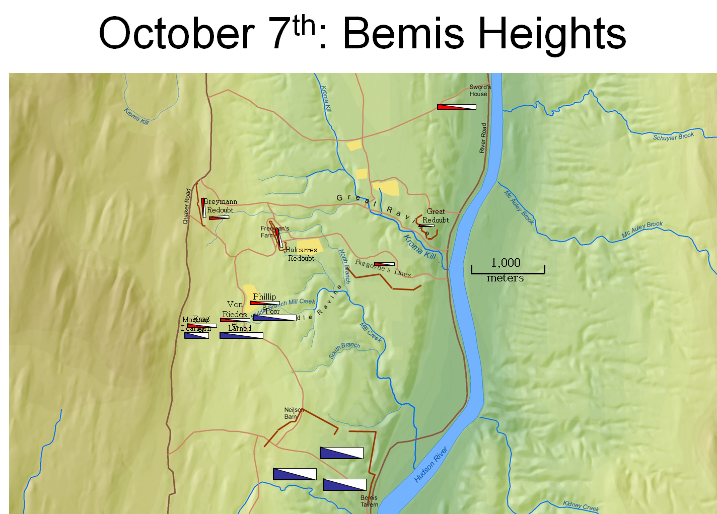 Shows the units at a brigade level and relative sizes at the outset of the Battle of Bemis Heights